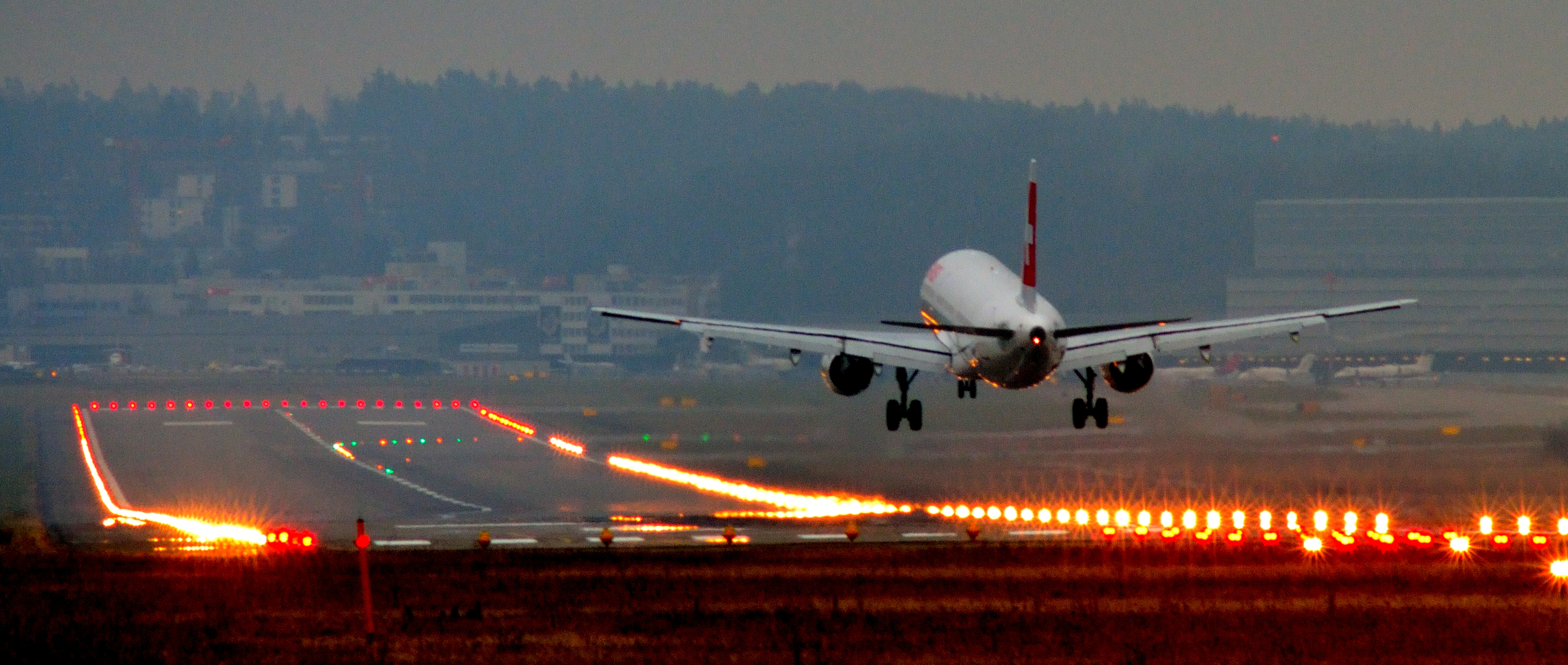 Airplane approaching Zurich International Airport